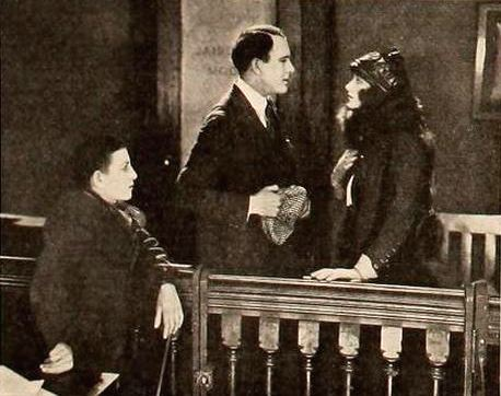 Still from the American drama film Deadline at Eleven (1920) with James Bradbury Jr. (left) and Corinne Griffith (right), on page 3174 of the April 3, 1920 Motion Picture News.